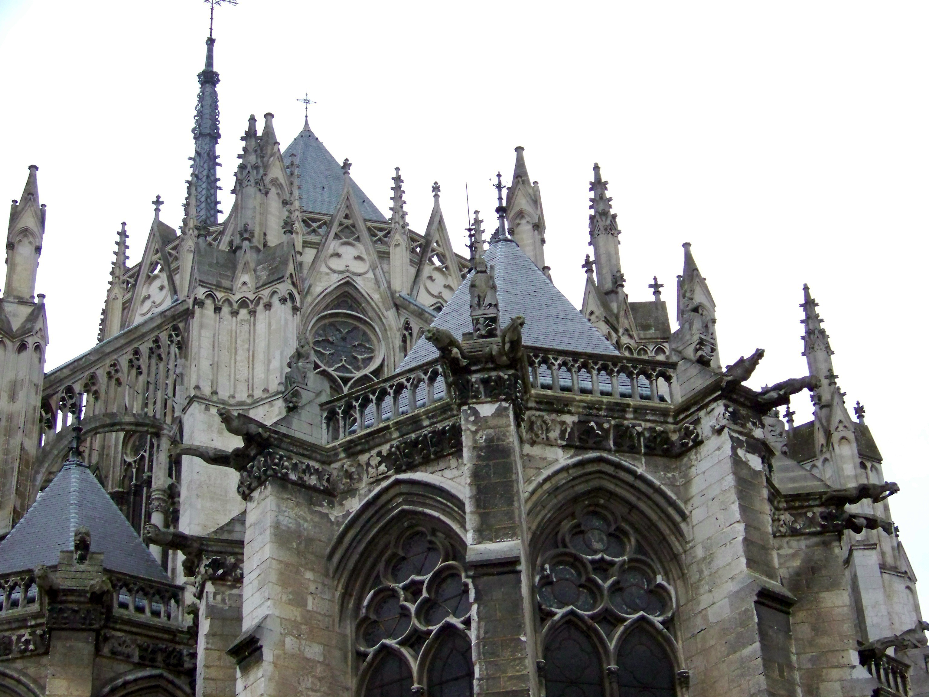 Chevet of the cathedral Notre-Dame in Amiens, France